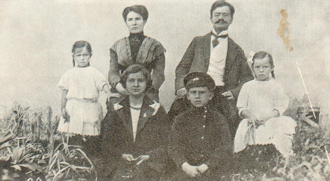 Family of Belarusian poet, artist and translator Albert Paŭłovič, 1913 Беларуская (тарашкевіца): Сям'я беларускага паэта Альбэрта Паўловіча, 1913